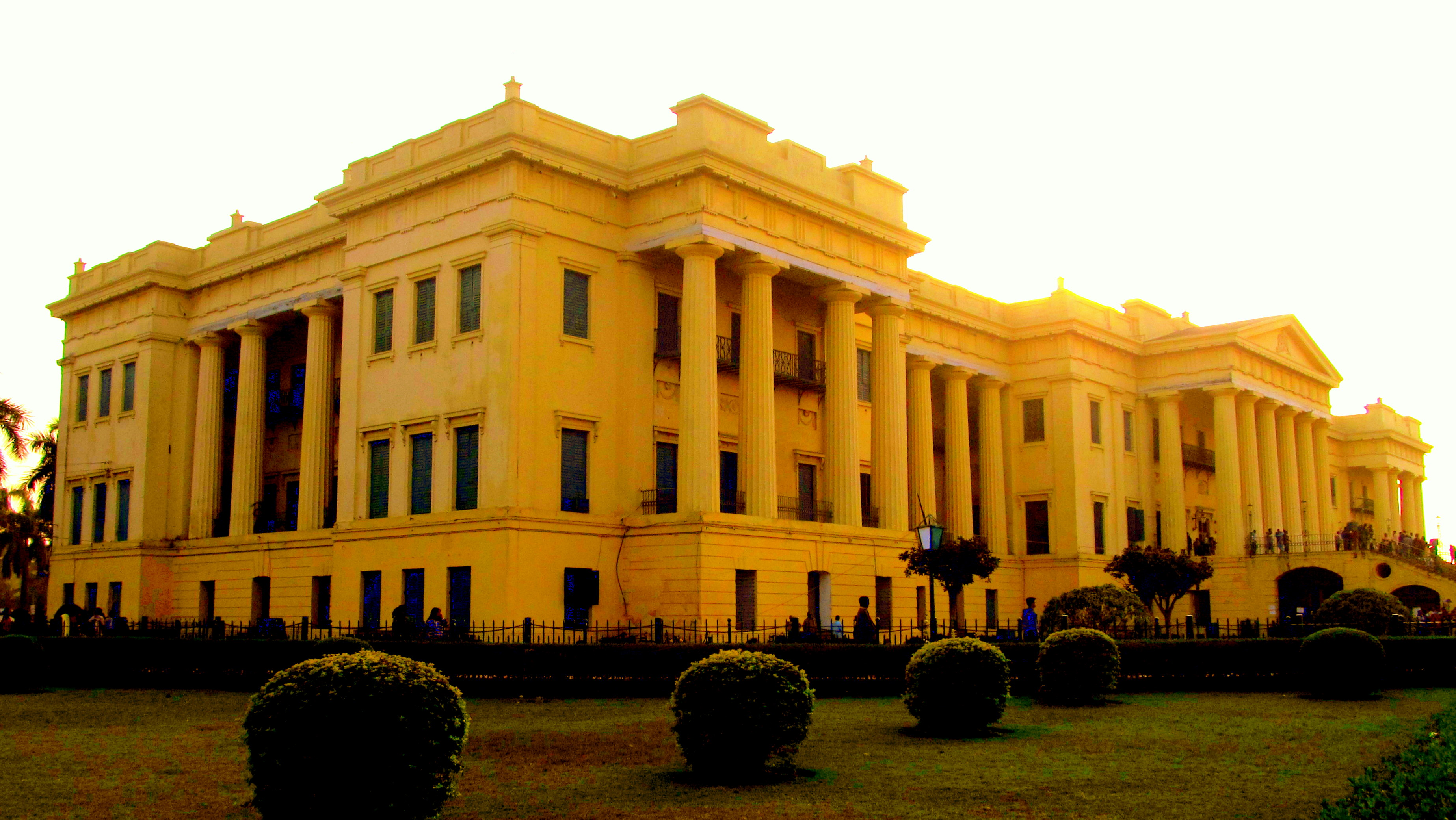 The Hazarduari Palace Museum is one of the greatest wonders of Bengal, sited in Murshidabad.